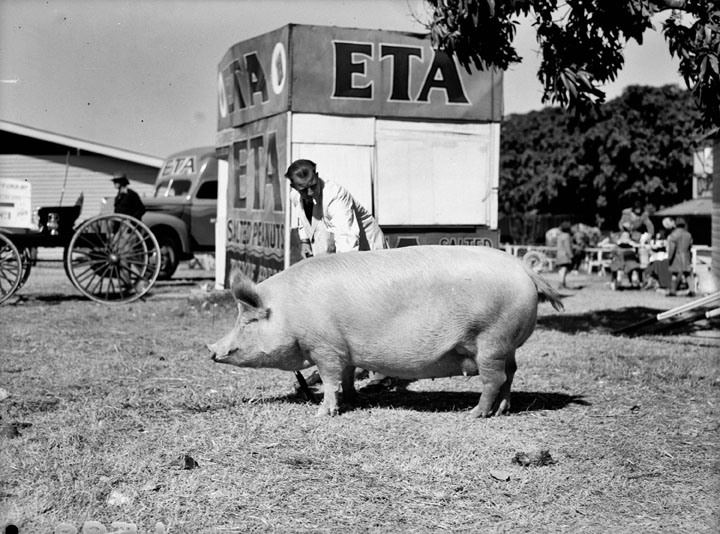 Champion Large White sow.